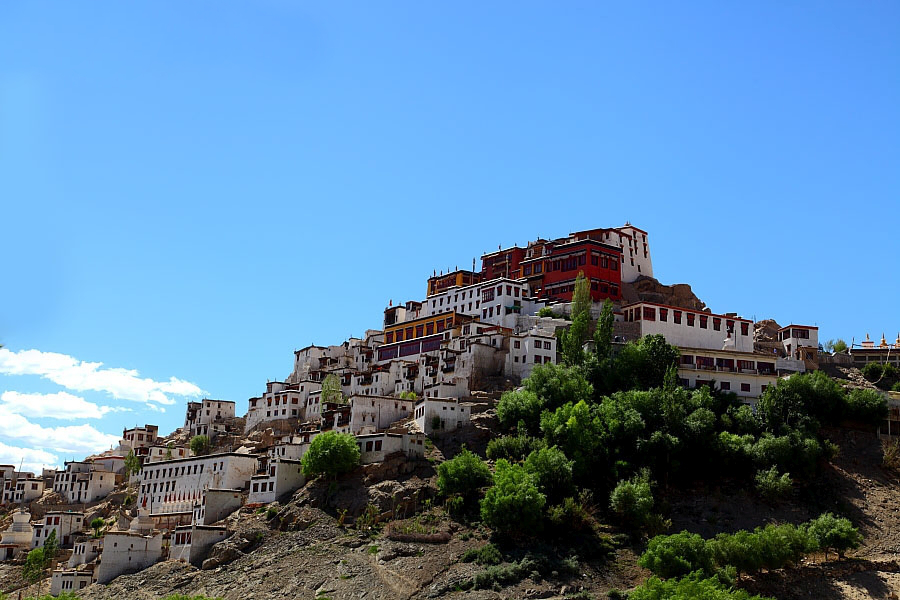 Outside view of Thiksey Monastery